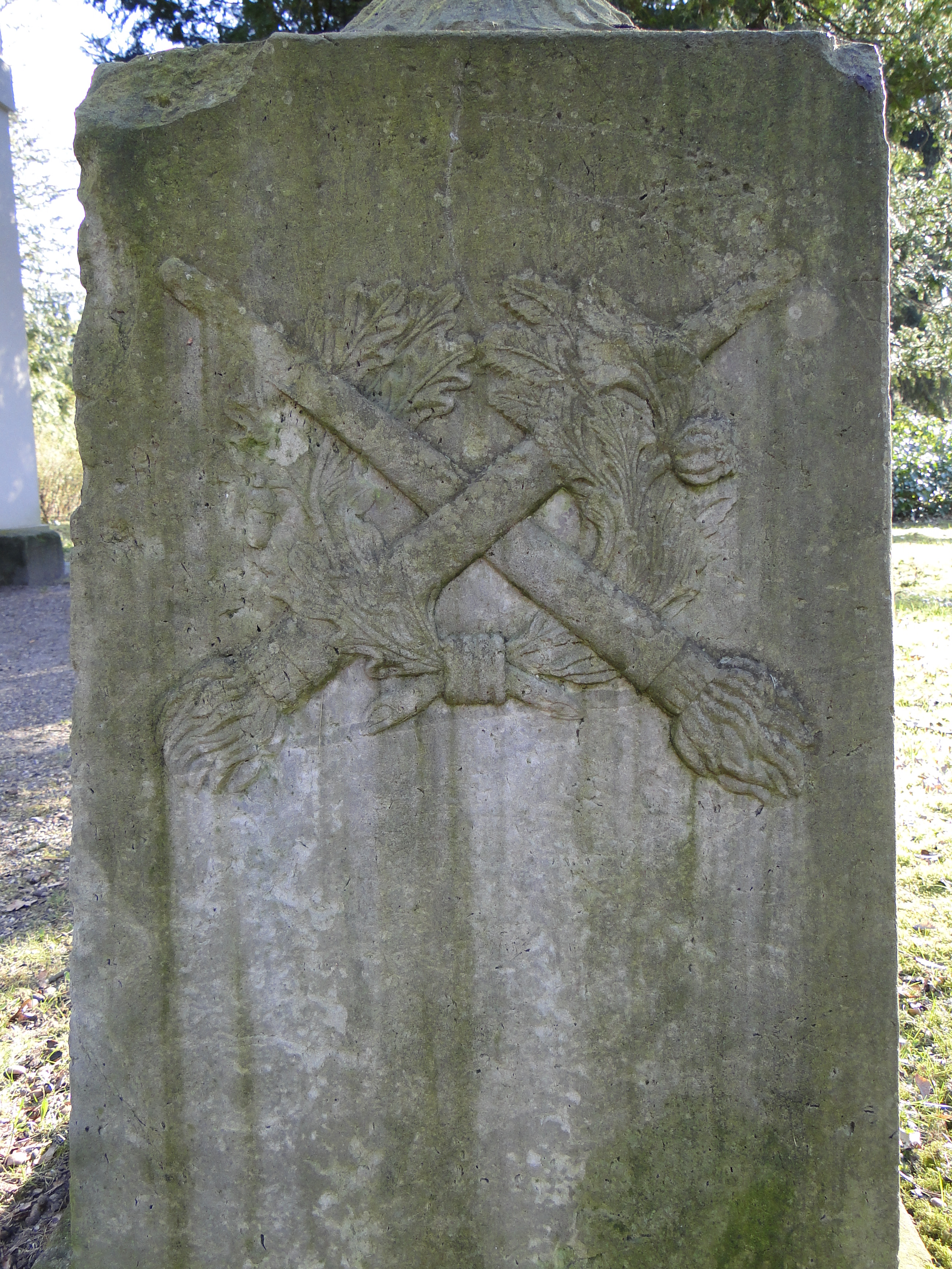 Alter Friedhof (Old cemetery) in Parchim, district Ludwigslust-Parchim, Mecklenburg-Vorpommern, Germany